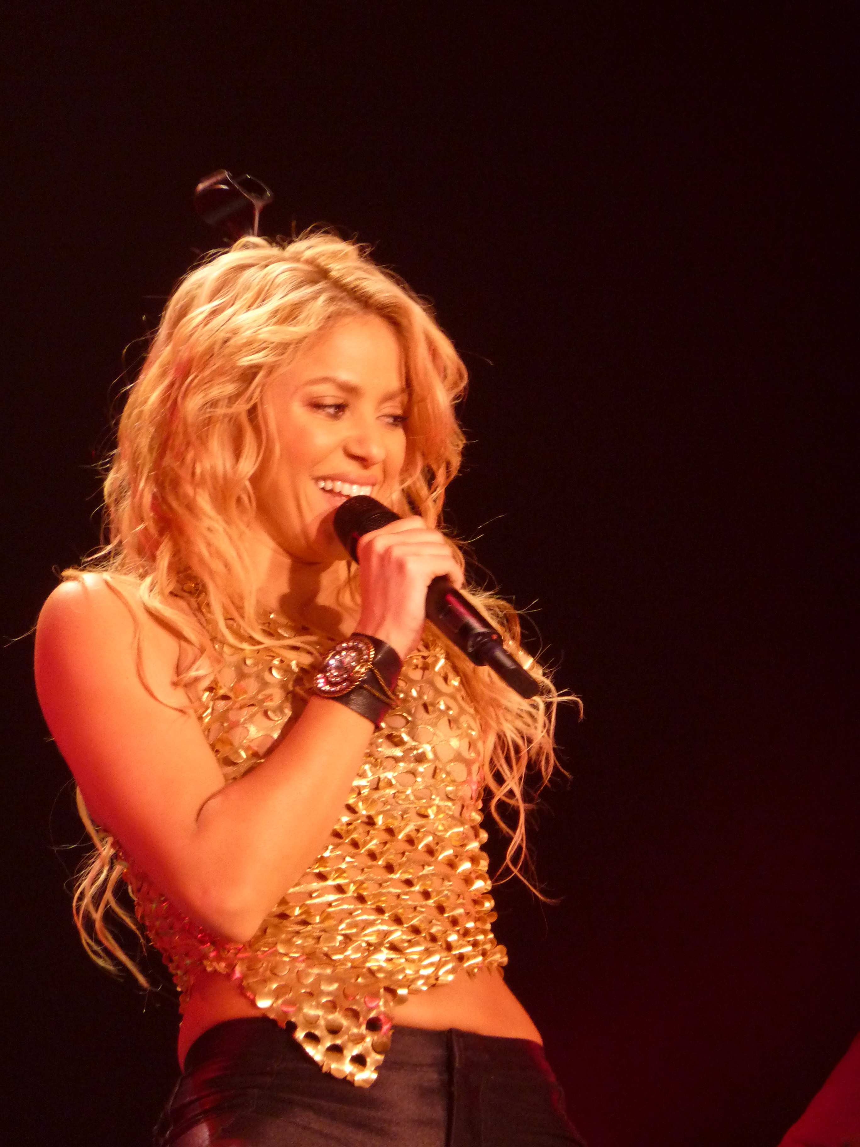 Shakira in concert in Palais Omnisports de Paris-Bercy, Paris in 2010.